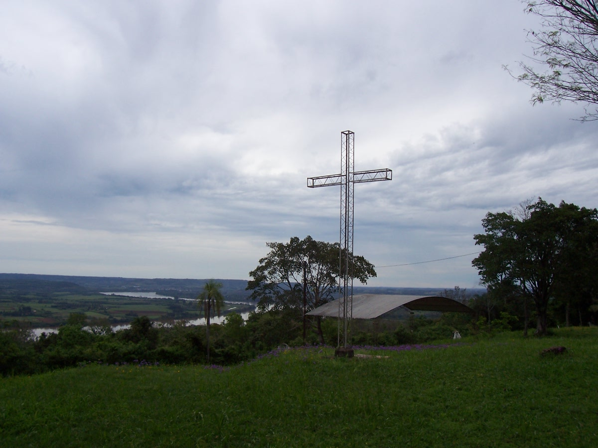 Photo main Cross, in the Monk Hill, San Javier, Misiones, Argentina. To the bottom, the Uruguay river that for of border with Brazil.